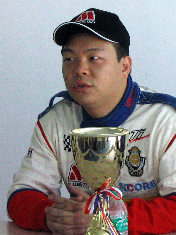 Paul Poon during a post race interview.